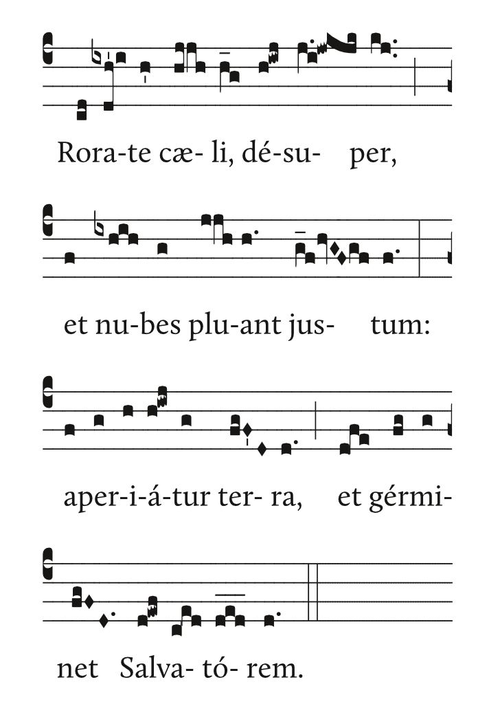 Plainsong antiphon for the Fourth Sunday of Advent